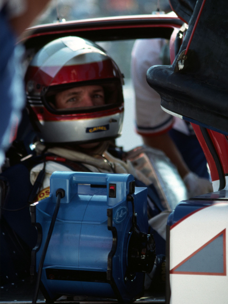 Chip Robinson in the Nissan ZX-Turbo GTP car at the IMSA Del Mar Grand Prix